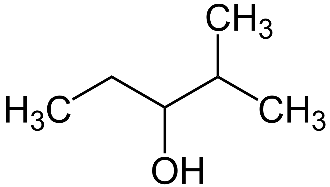 A structural drawing of a hexanol isomer.